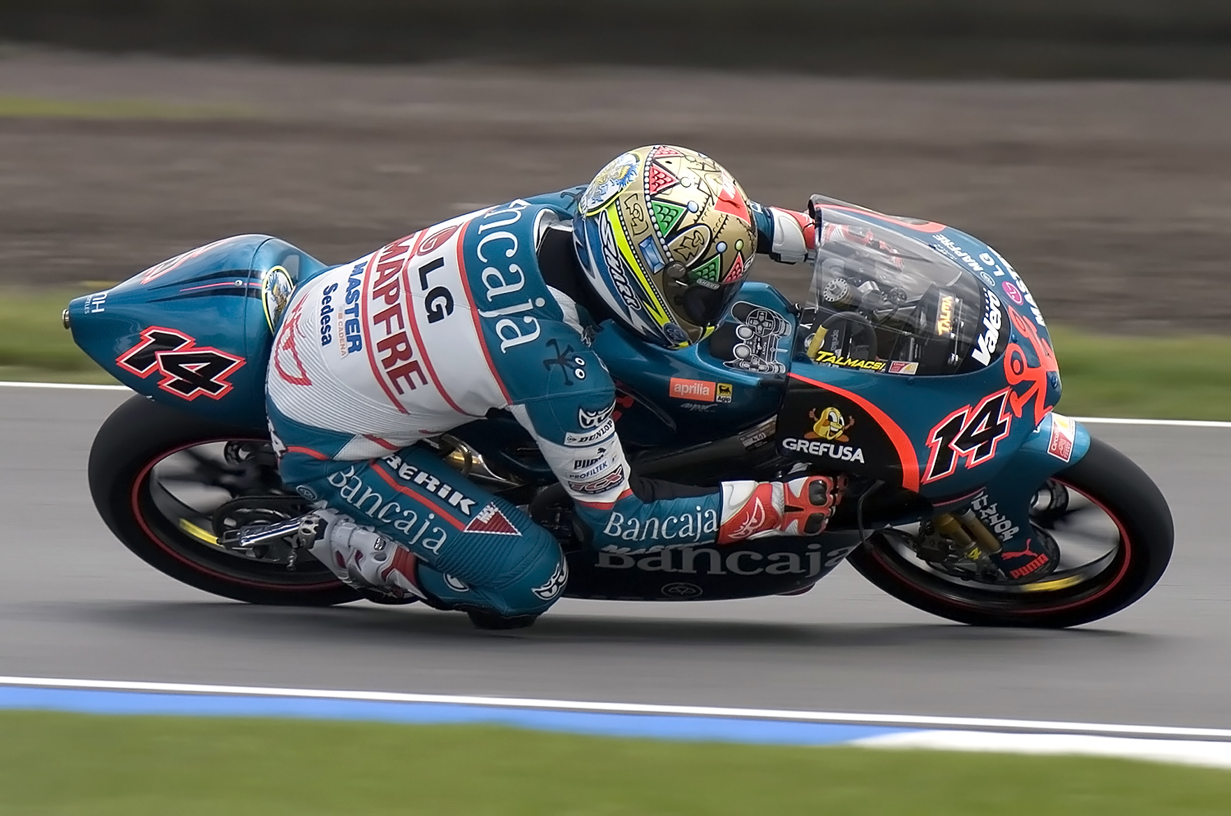 Gábor Talmácsi World Championship winner Hungarian motorcycle racer with the number 14 driving for the Bancaja Aspar Team on an Aprilia 125 cc. The shot is during second qualifying session of the 2007 British GP at Donington.